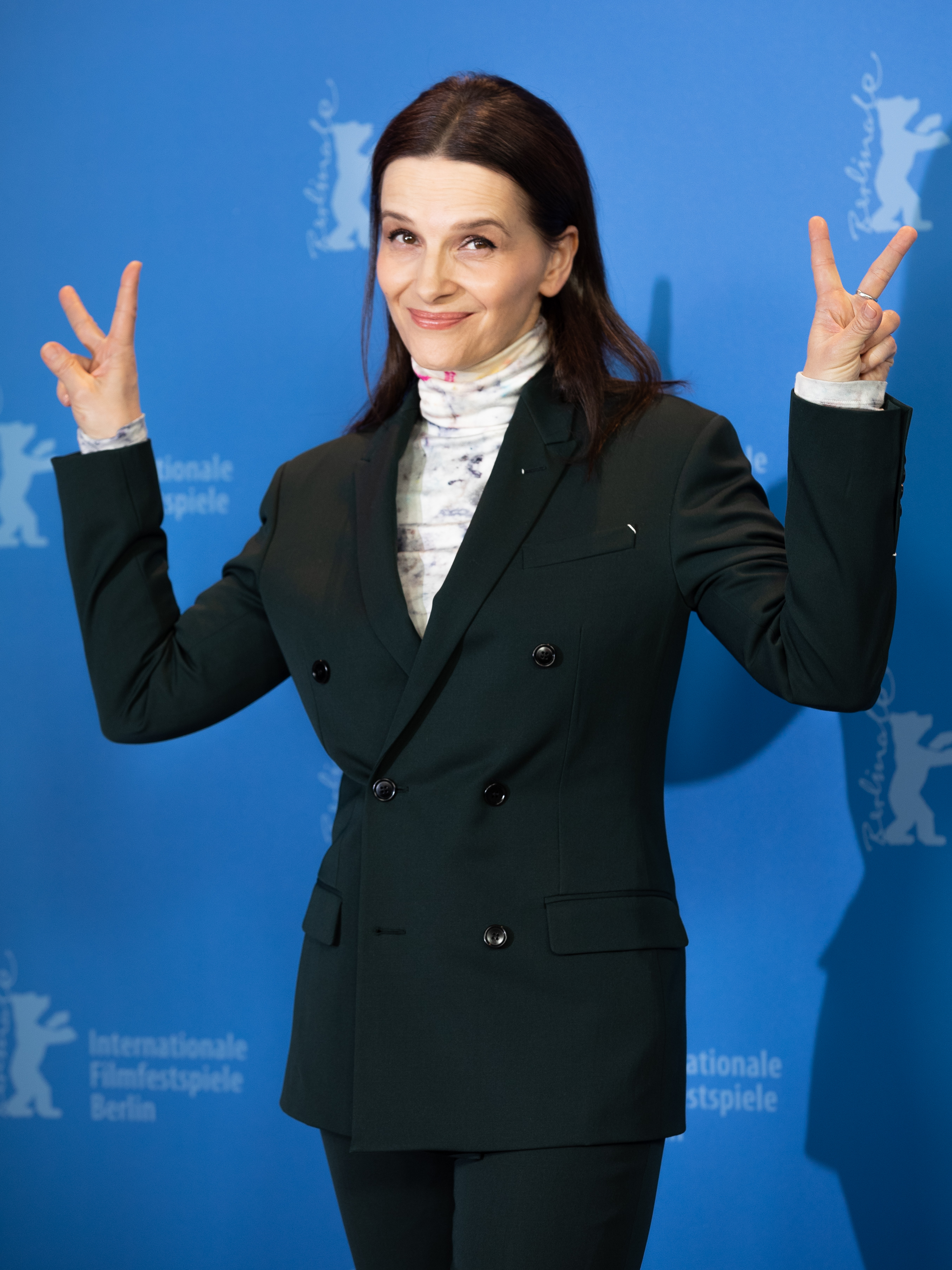 Juliette Binoche at the Photo Call of the International Jury of the Berlinale 2019